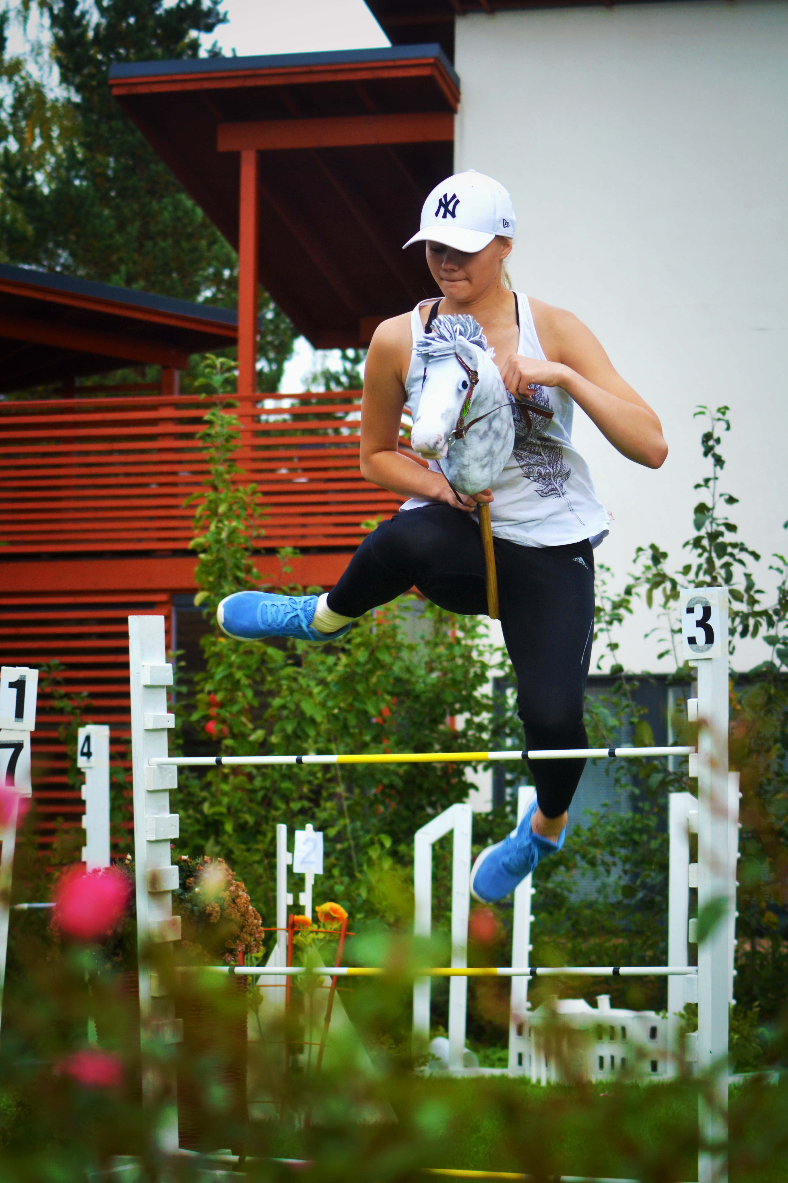 Photo from a show jumping competition. Highest jumps were about 100 centimetres high.